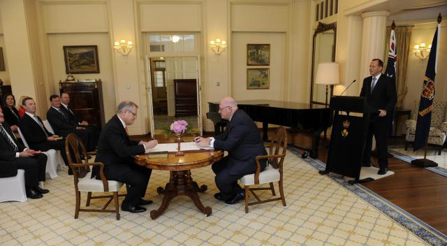 The Governor-General Sir Peter Cosgrove issues the Oaths and Affirmation of Office to the Honourable Scott Morrison MP, Minister for Social Services at a ceremony at Government House, Canberra, ACT.